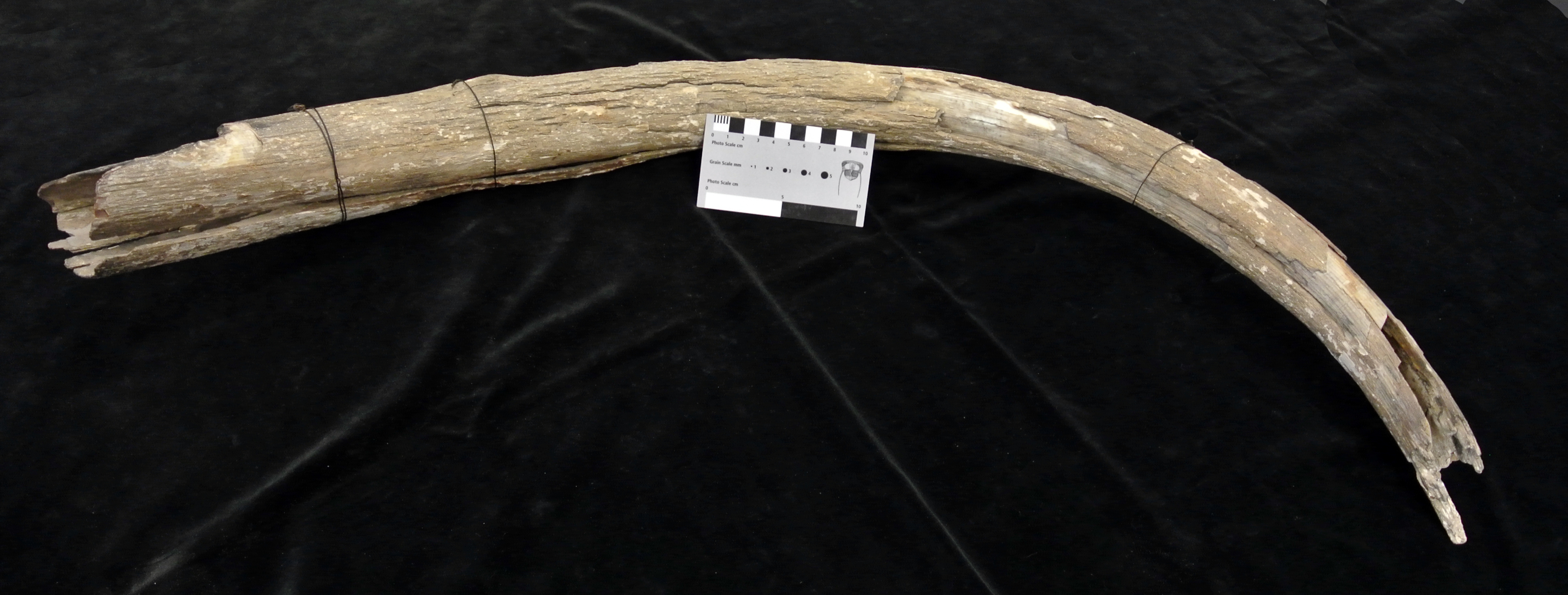 Mammut americanum (American Mastodon) tusk from the Pleistocene of Holmes County, Ohio.